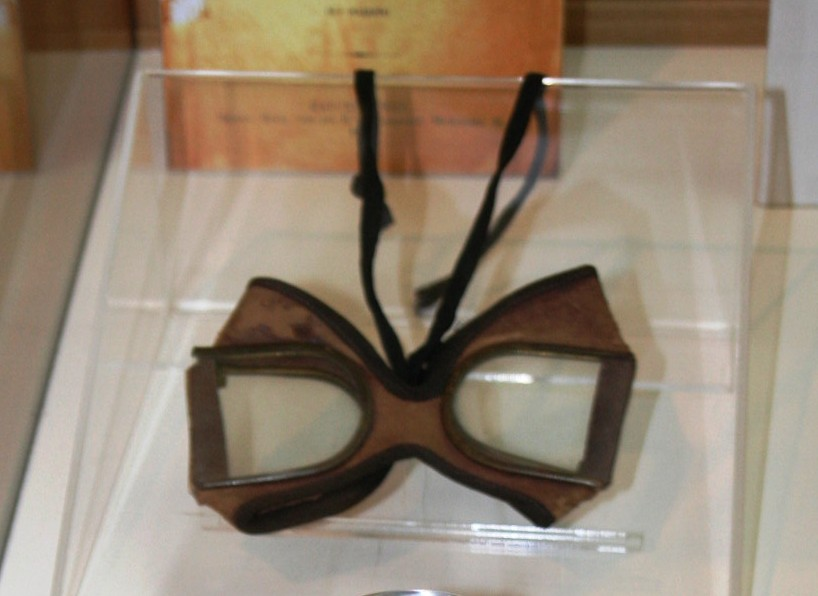 Spectacles of Ali-Agha Shikhlinski